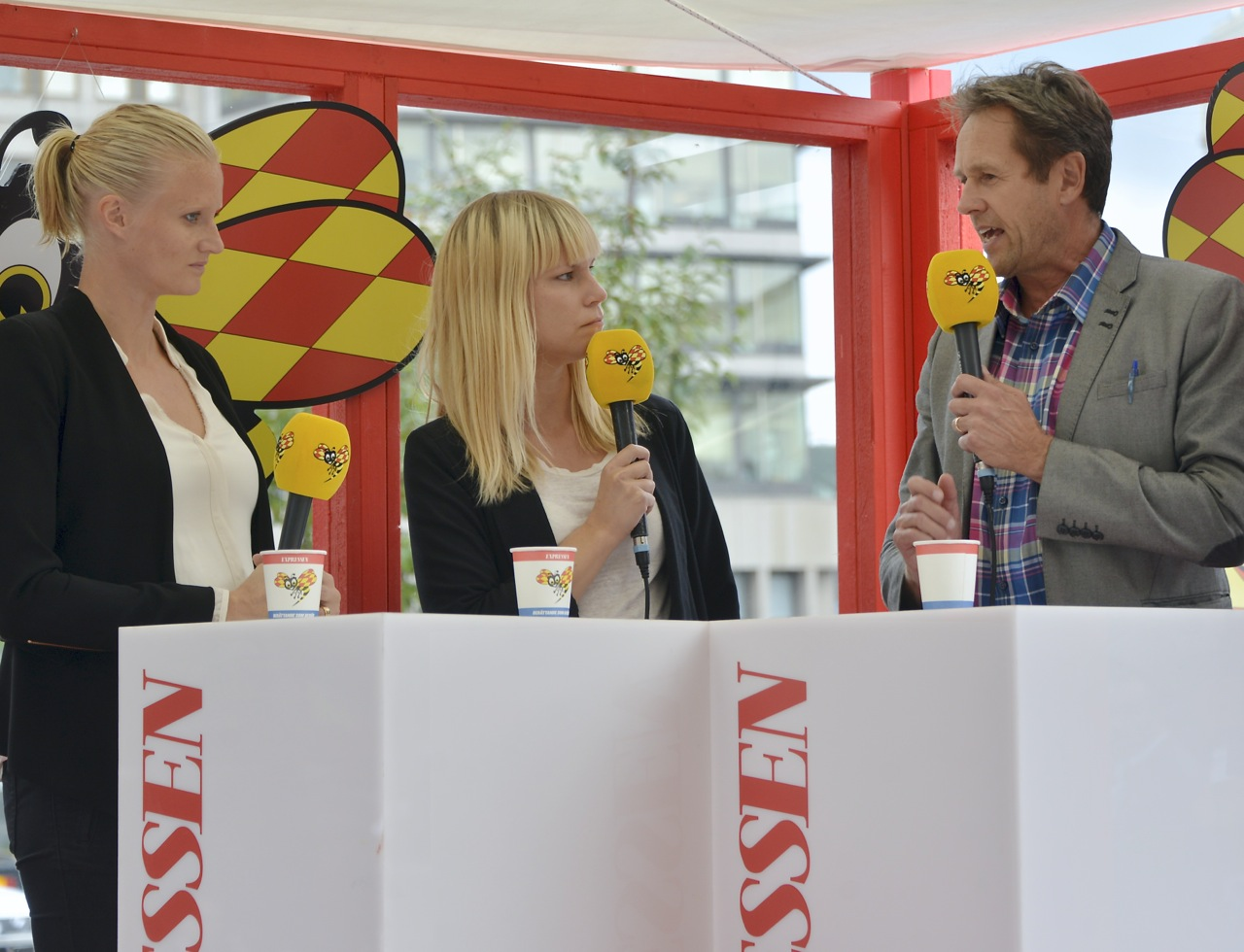 Carolina Klüft at Sergel Square during the Swedish election campaign in September 2014.